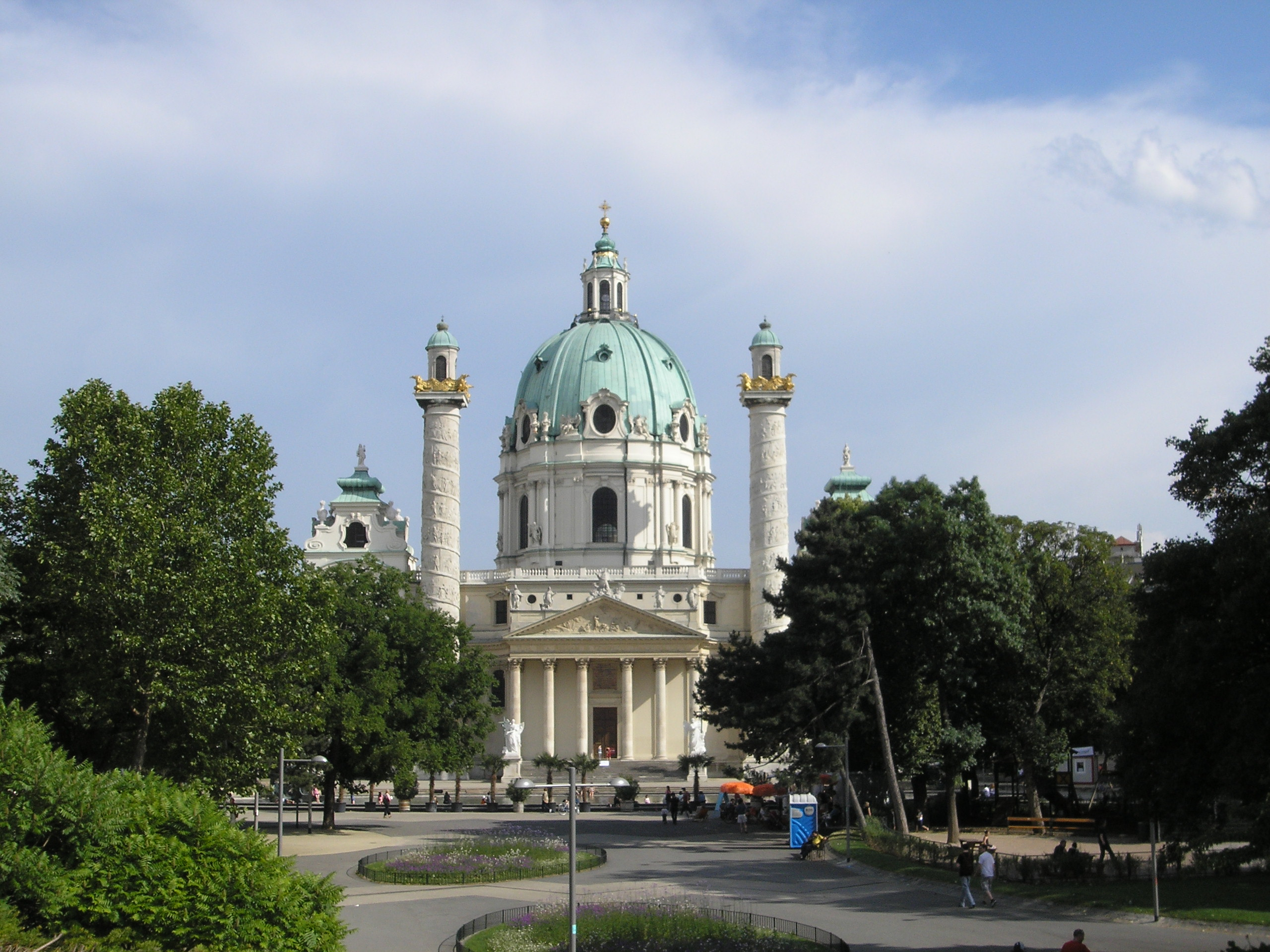 Austria, Vienna, St. Charles's Church